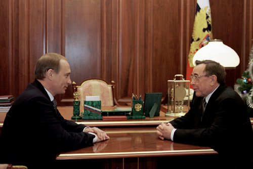 THE KREMLIN, MOSCOW. A meeting with Arbitration Court Chairman Veniamin Yakovlev.